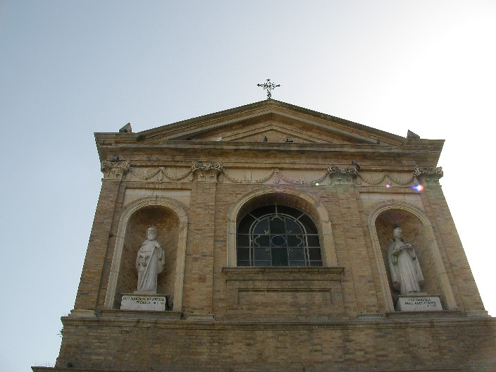 The second level of the façade of the church of Madonna Addolorata to Atessa